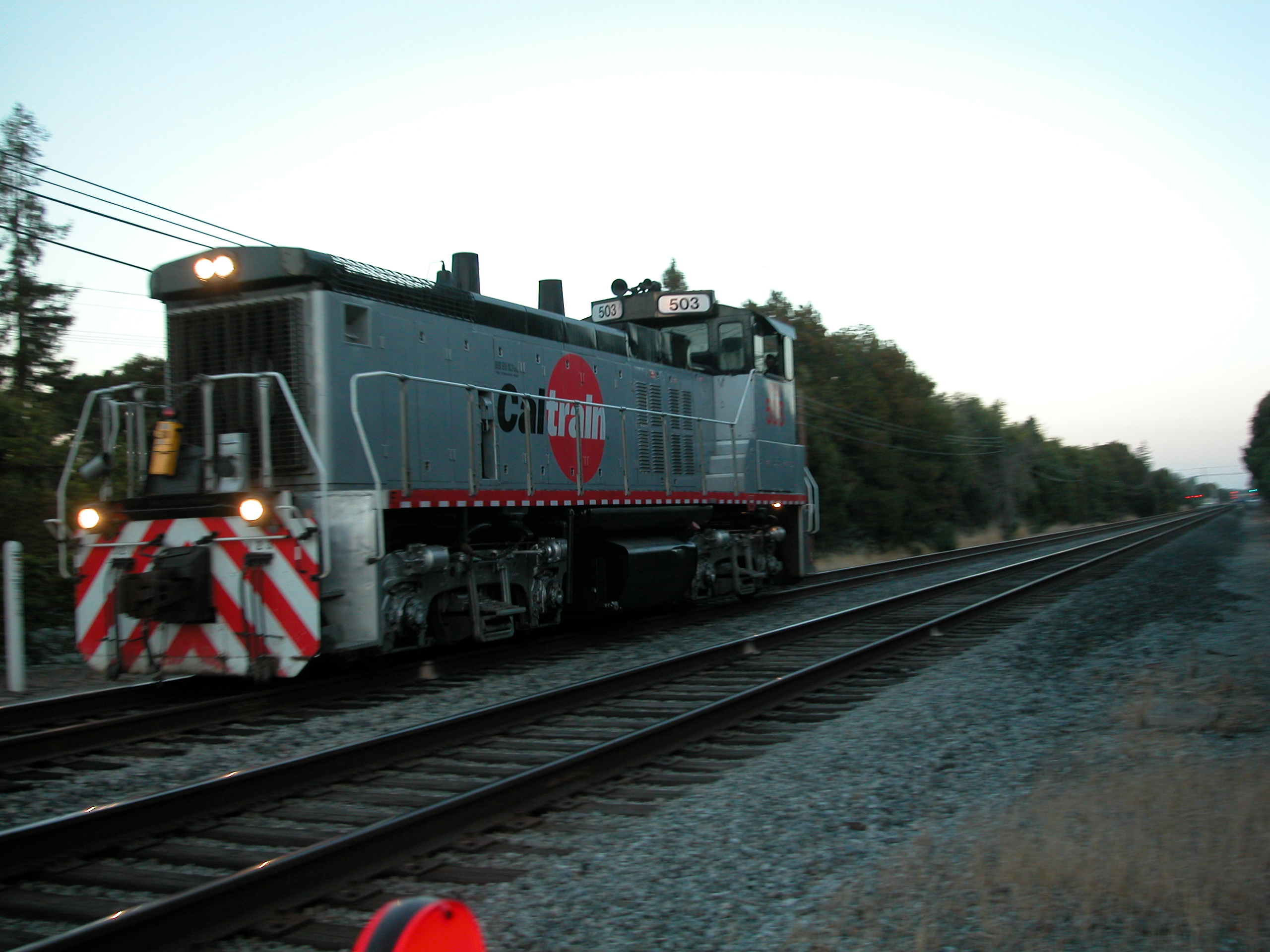 Caltrain MP15DC work locomotive seen at a grade crossing between San Antonio and California Avenue stations in Palo Alto, California in 2005